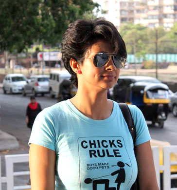 Gul Panag, cast of 'Fatso' arrives to sell tickets at PVR, Juhu